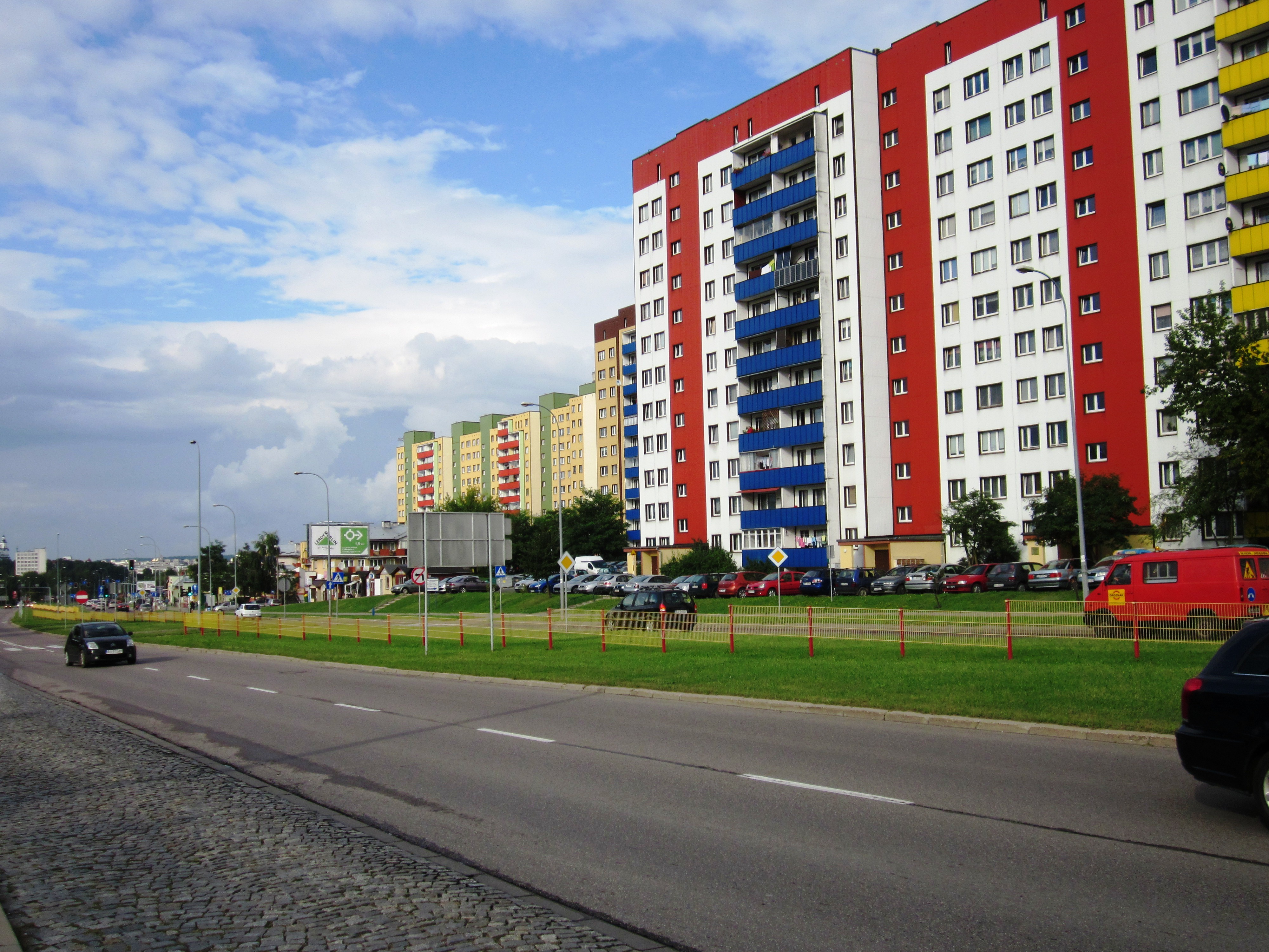 Blocks of flats on the street Sikorski in Białystok